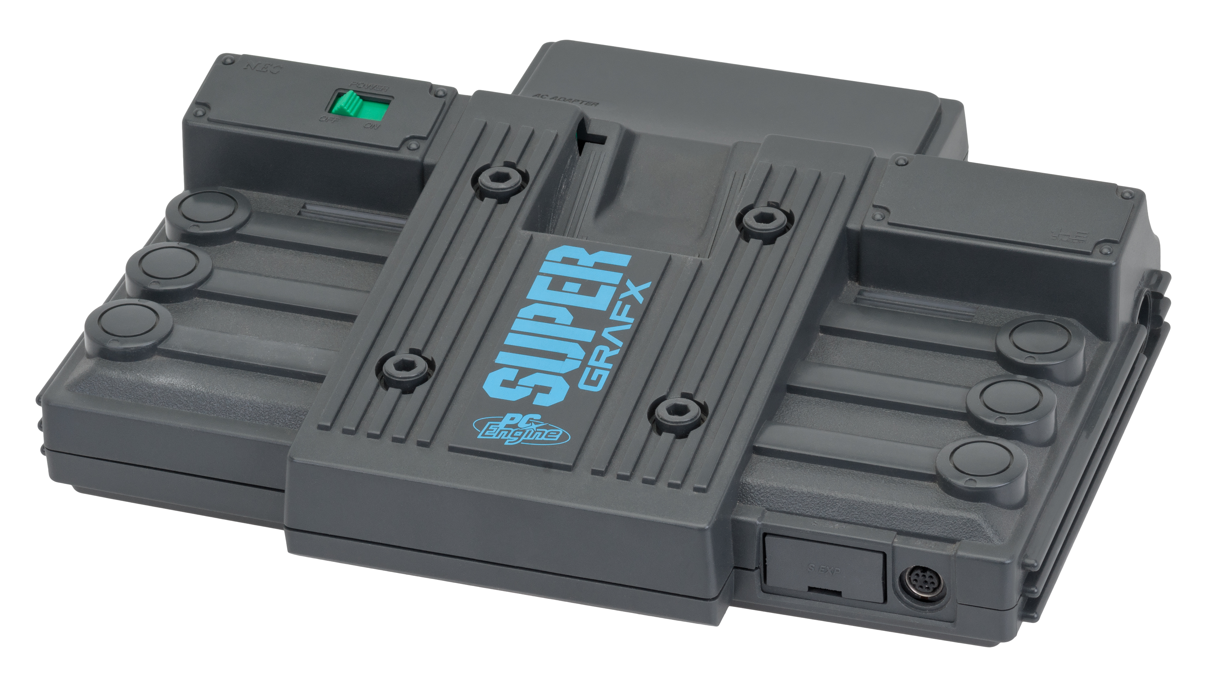 The SuperGrafx, an upgraded version of the PC Engine, that was released in Japan in 1989.